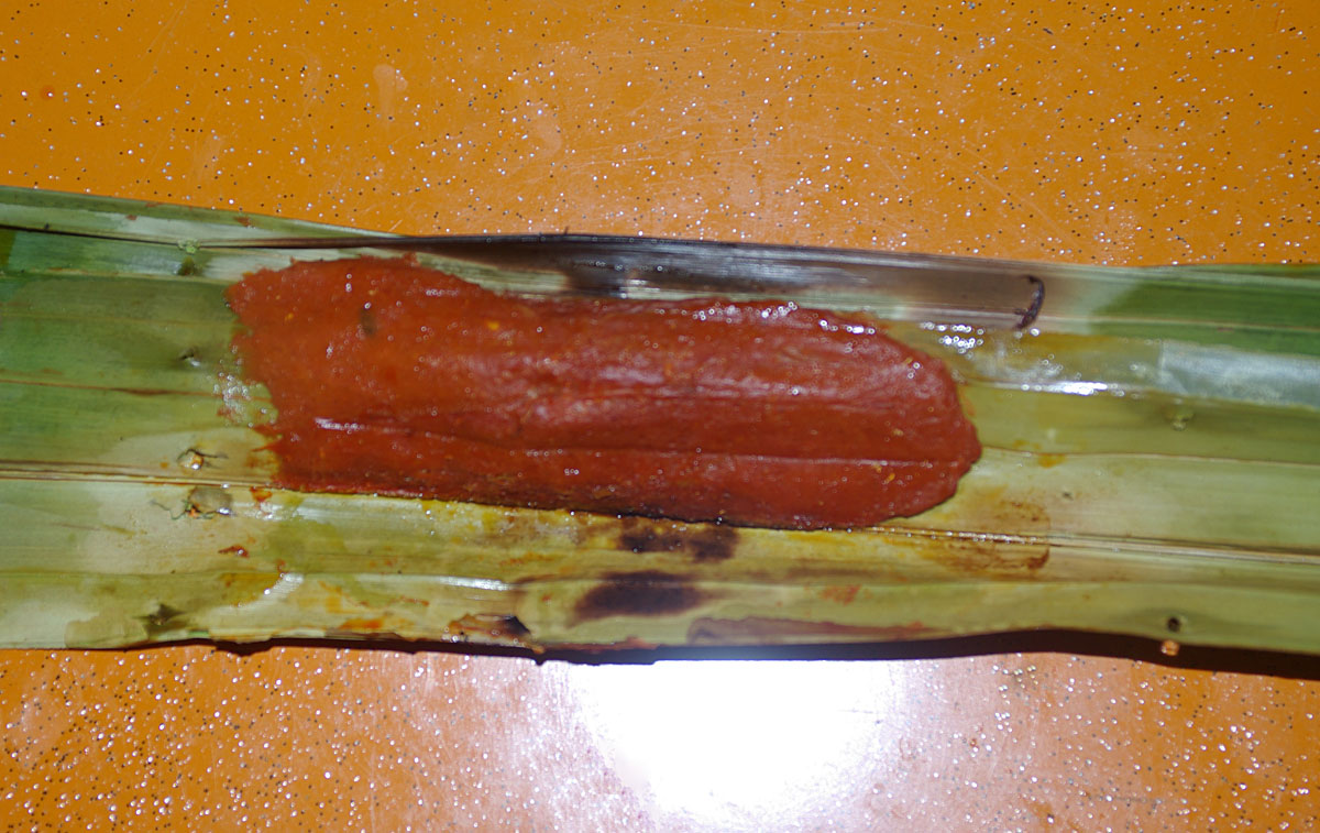 Otak-otak - a Malaysian starter